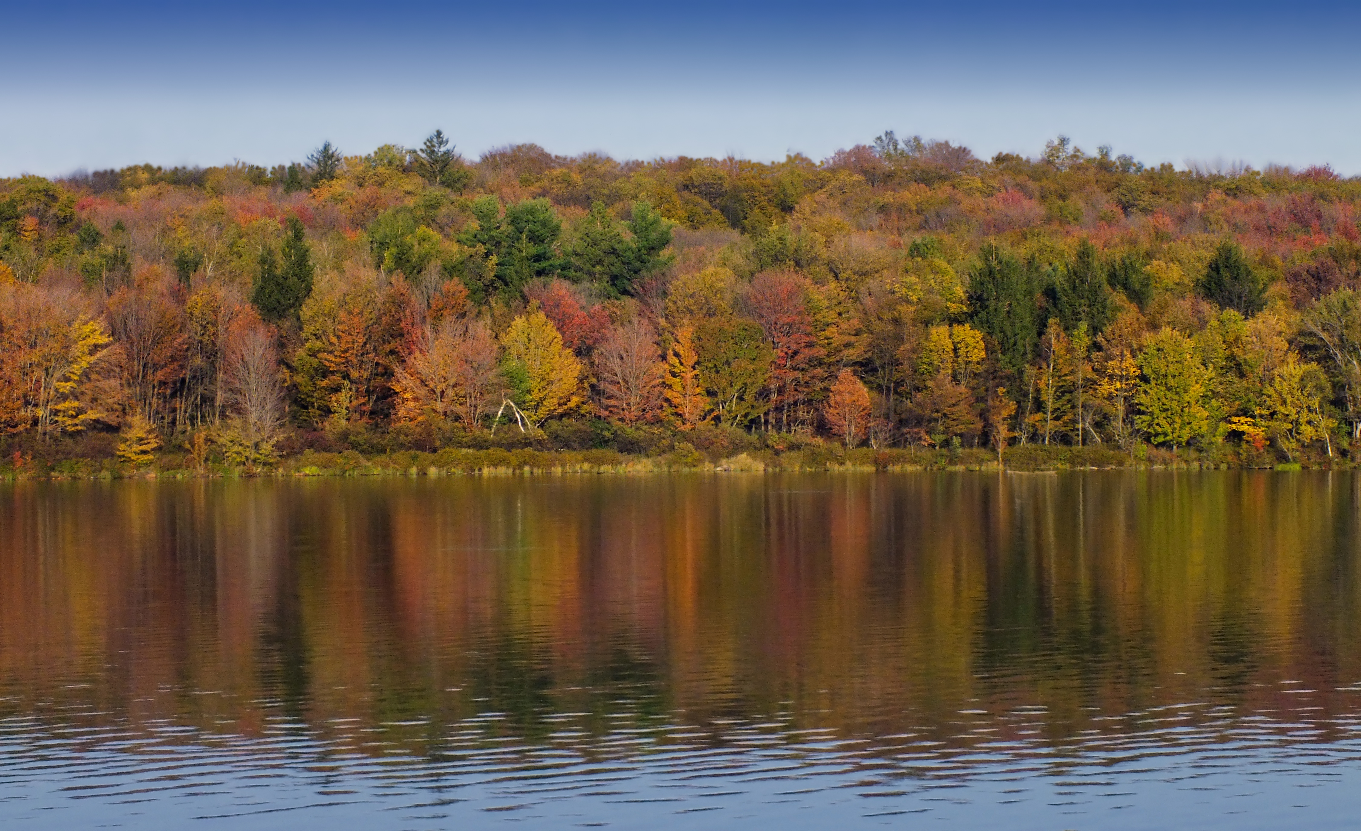 Promised Land Lake, Pike County.